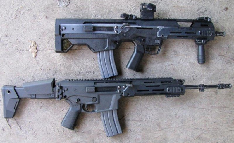 FB MSBS-K + FB MSBS-B